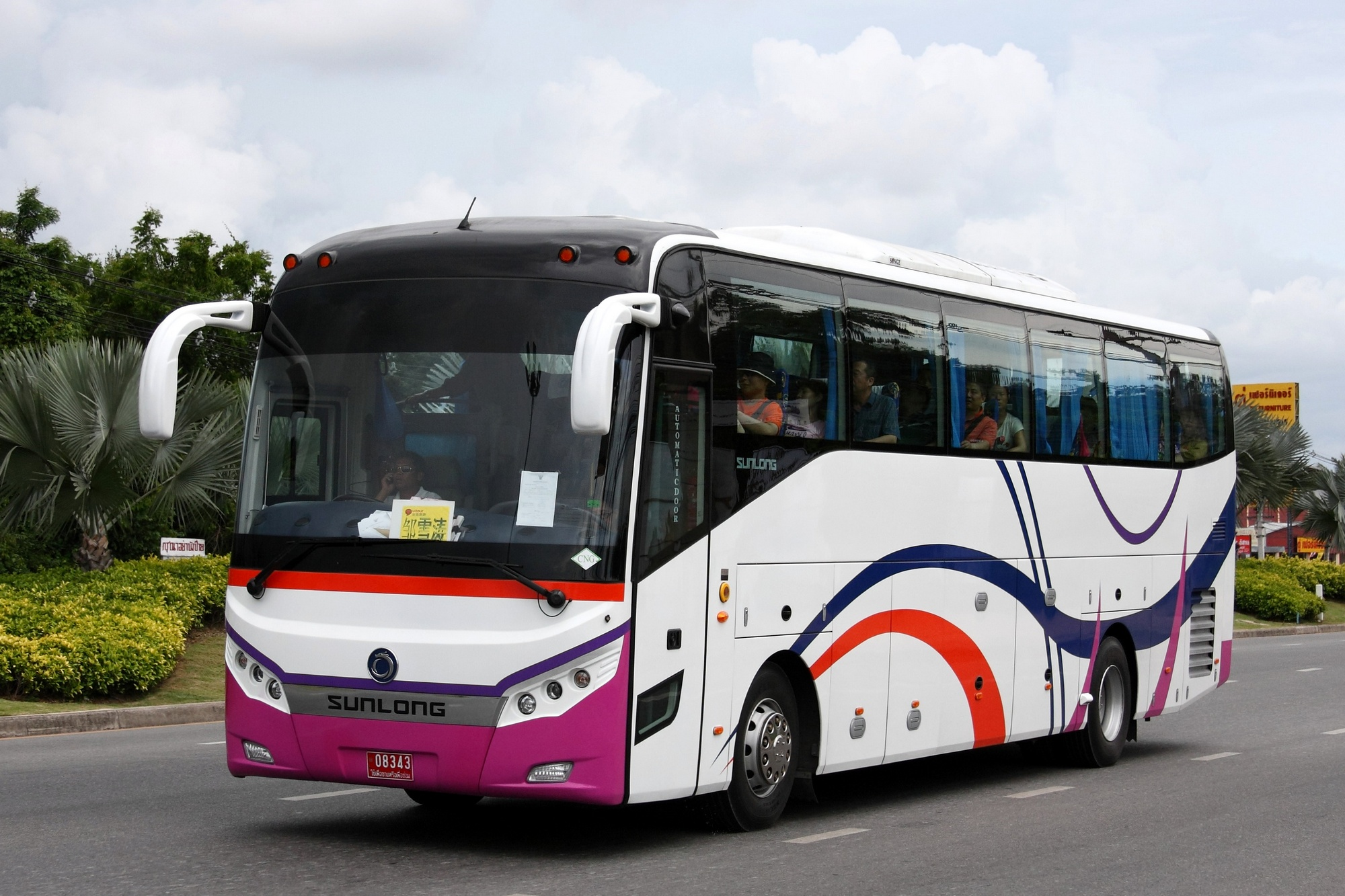 SunLong SLK6126CNGB in Pattaya, Thailand